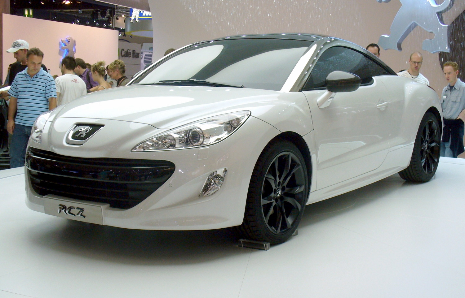 Peugeot RCZ Limited Edition